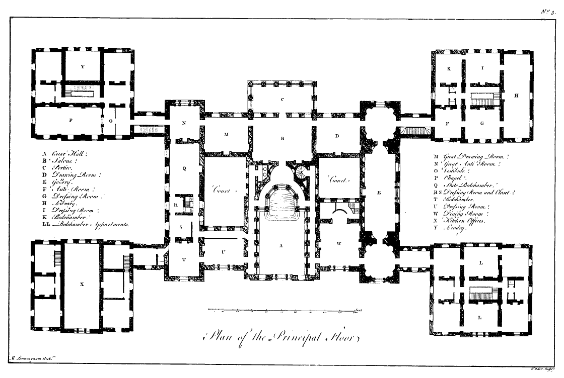 Plan of the principal floor of Holkham Hall, Norfolk